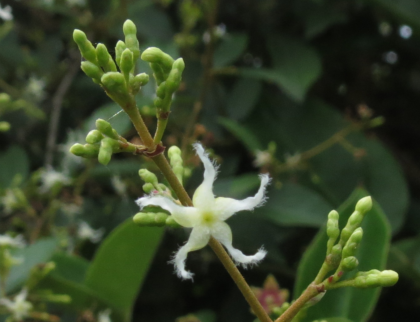 Ichnocarpus frutescens seen in valley school bangalore